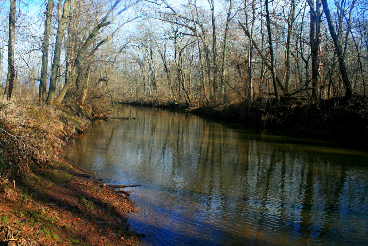 Gettysburg, Rock Creek near Barlow's Knoll